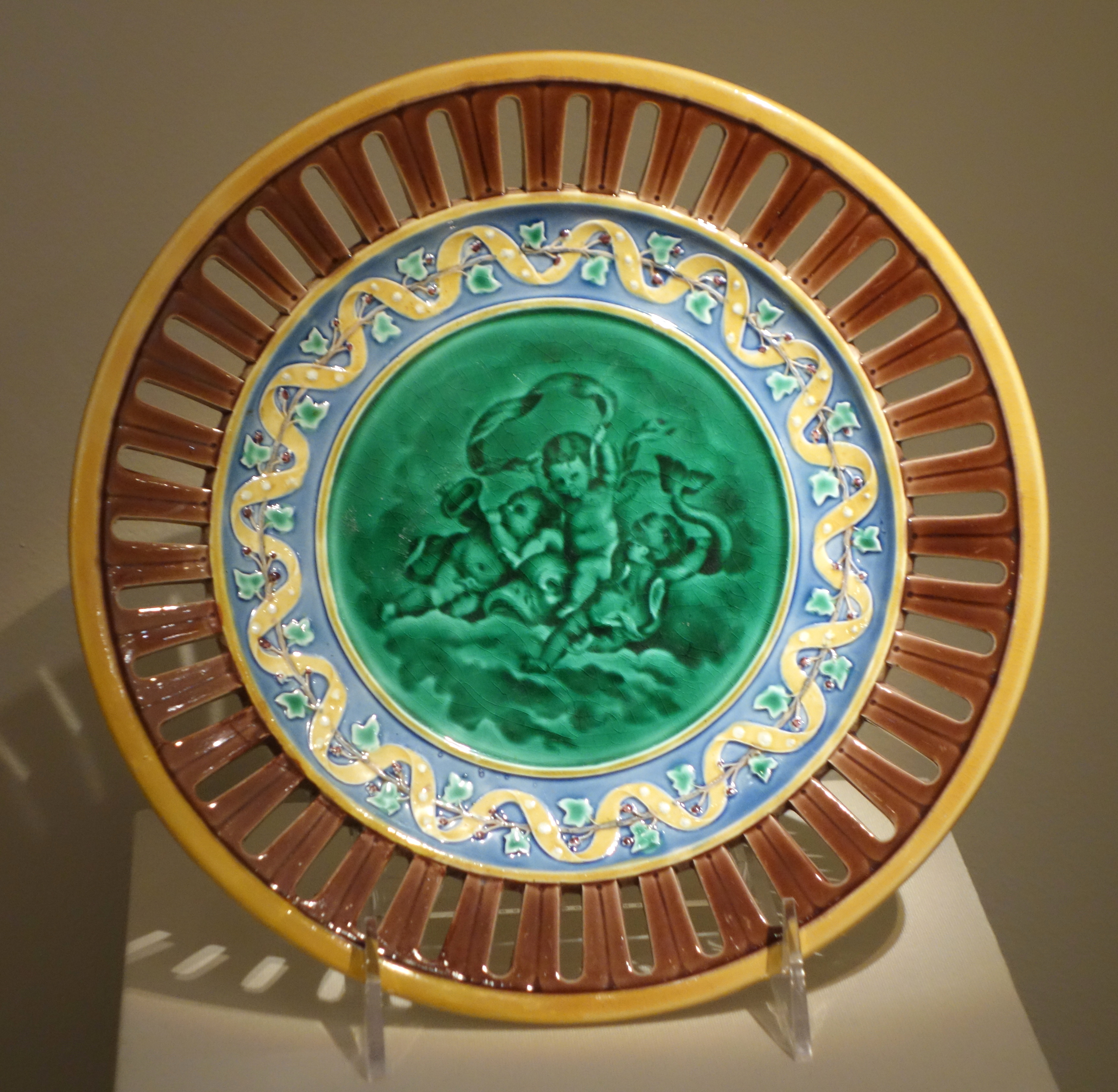 Exhibit in the Chazen Museum of Art, University of Wisconsin-Madison, Madison, Wisconsin, USA. This artwork is old enough so that it is in the public domain.